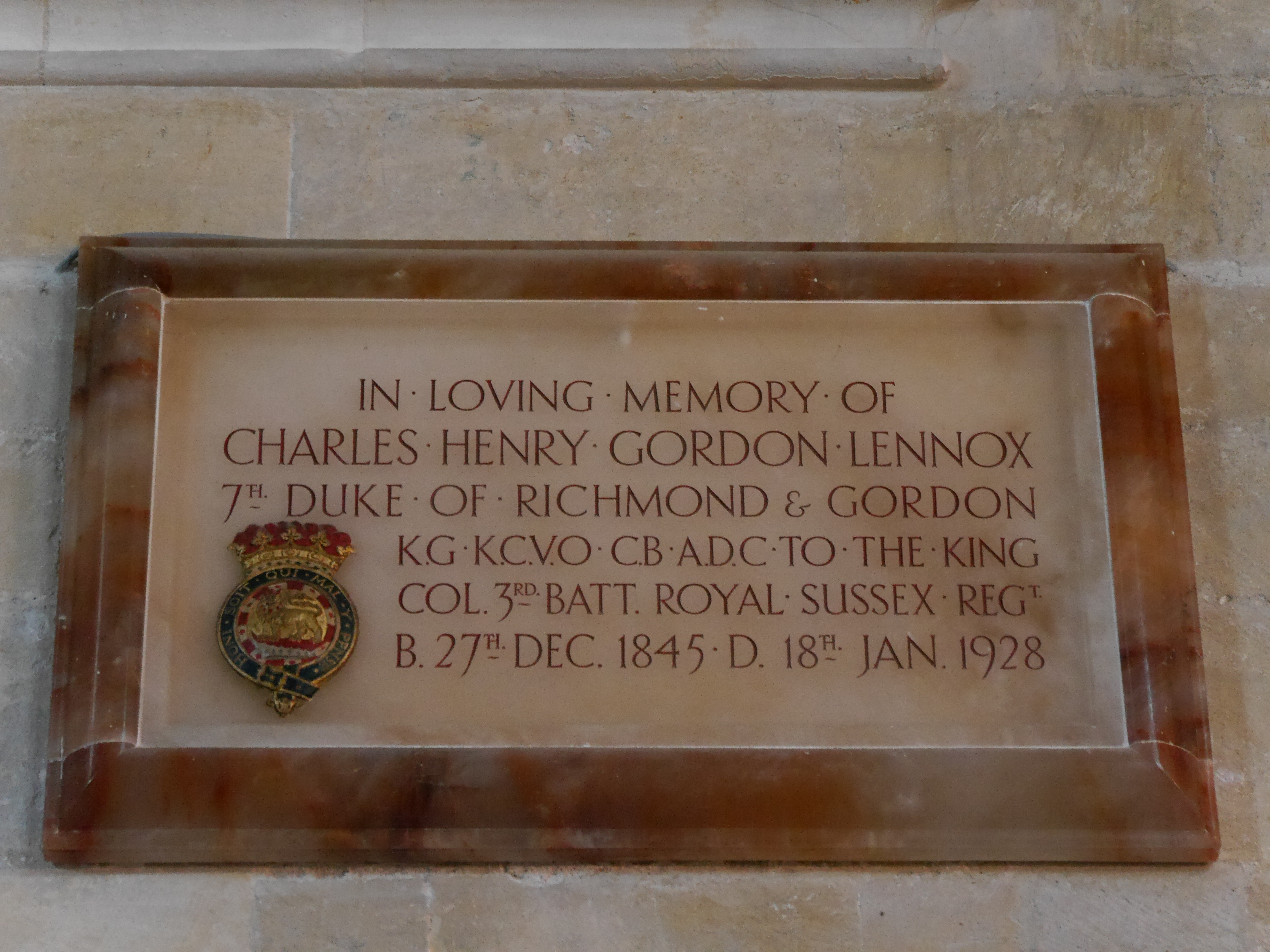 Chichester Cathedral, July 2015. Crest of Duke of Richmond: (Richmond crest) on a Chapeau Gules turned up Ermine a Lion statant guardant Or crowned with a Ducal Coronet Gules and gorged with a Collar compony of four pieces Argent and gules charged with two roses of the last; all circumscribed by the Garter (Richmond crest with Lennox collar and coronet). The Richmond motto: En la rose je fleurie – Like the rose, I flourish.